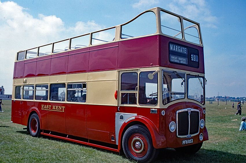 East Kent AEC Regent V, registration PFN 853, fleet number 853, on Southsea Common, 1989. Scanned from a Kodachrome 35mm slide.